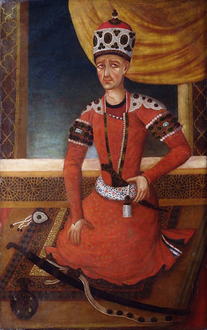 Artwork of Mohammad Khan Qajar, the founder of the Qajar dynasty of Iran (1785–1925).